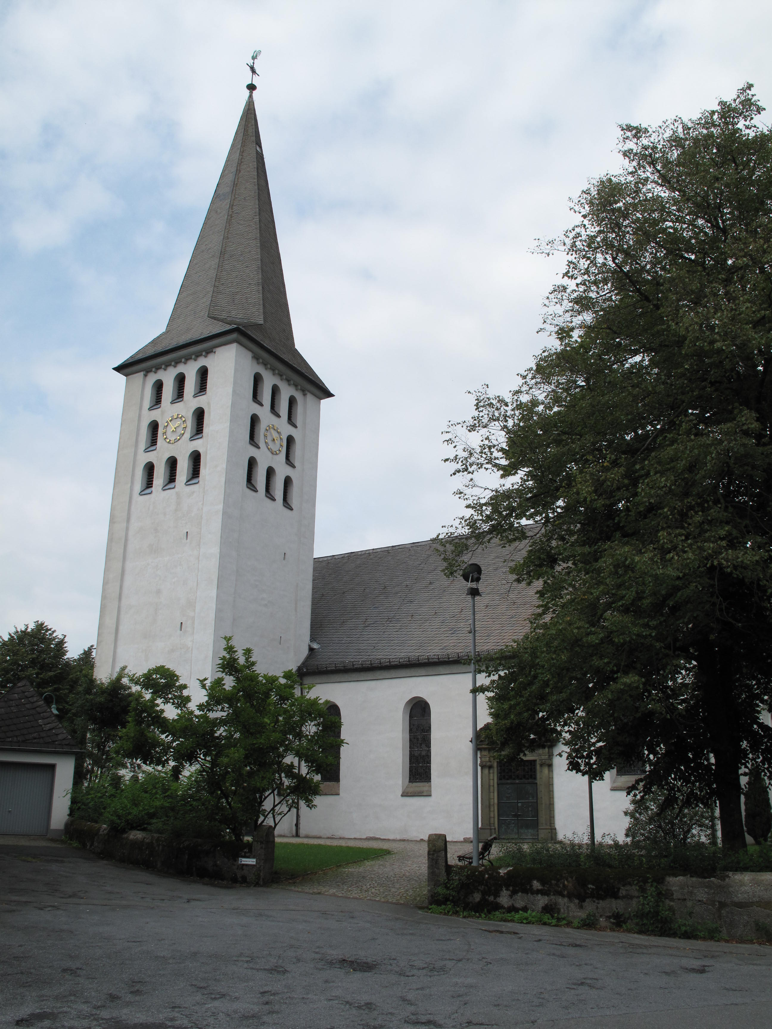 Warstein-Hirschberg, church